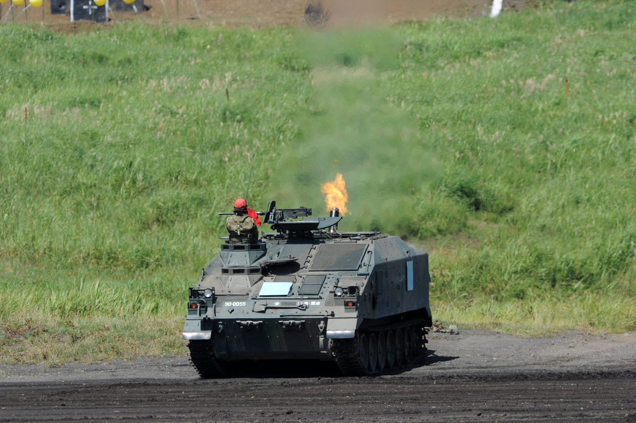 Title ９６式自走１２０ｍｍ迫撃砲 Ｈ２２富士総合火力演習・前段_030_R.JPG Album 装備 ９６式自走１２０ｍｍ迫撃砲（富士総合火力演習）